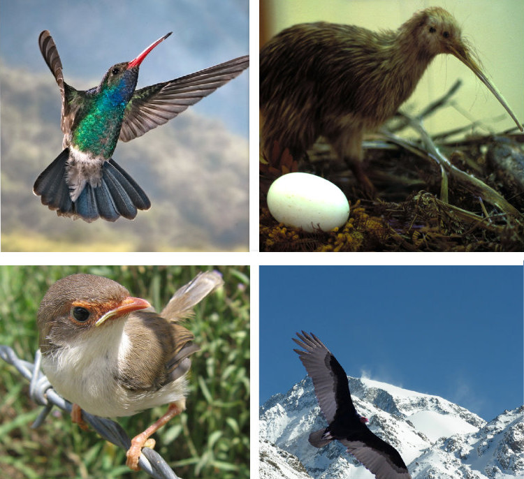 ᎯᎸᏍᎩ ᏥᏍᏆ. Four birds, in a square. For use in articles about birds.